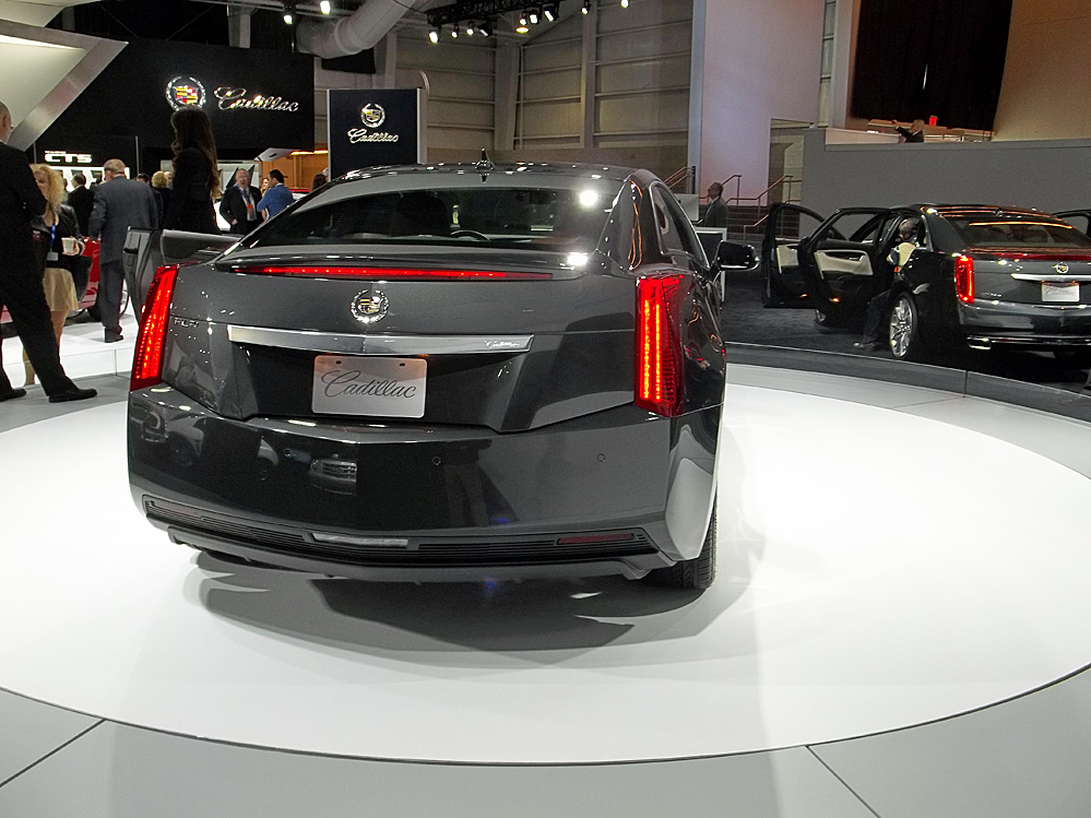 Rear view of the 2014 Cadillac ELR coupe at the 2013 New York Auto Show